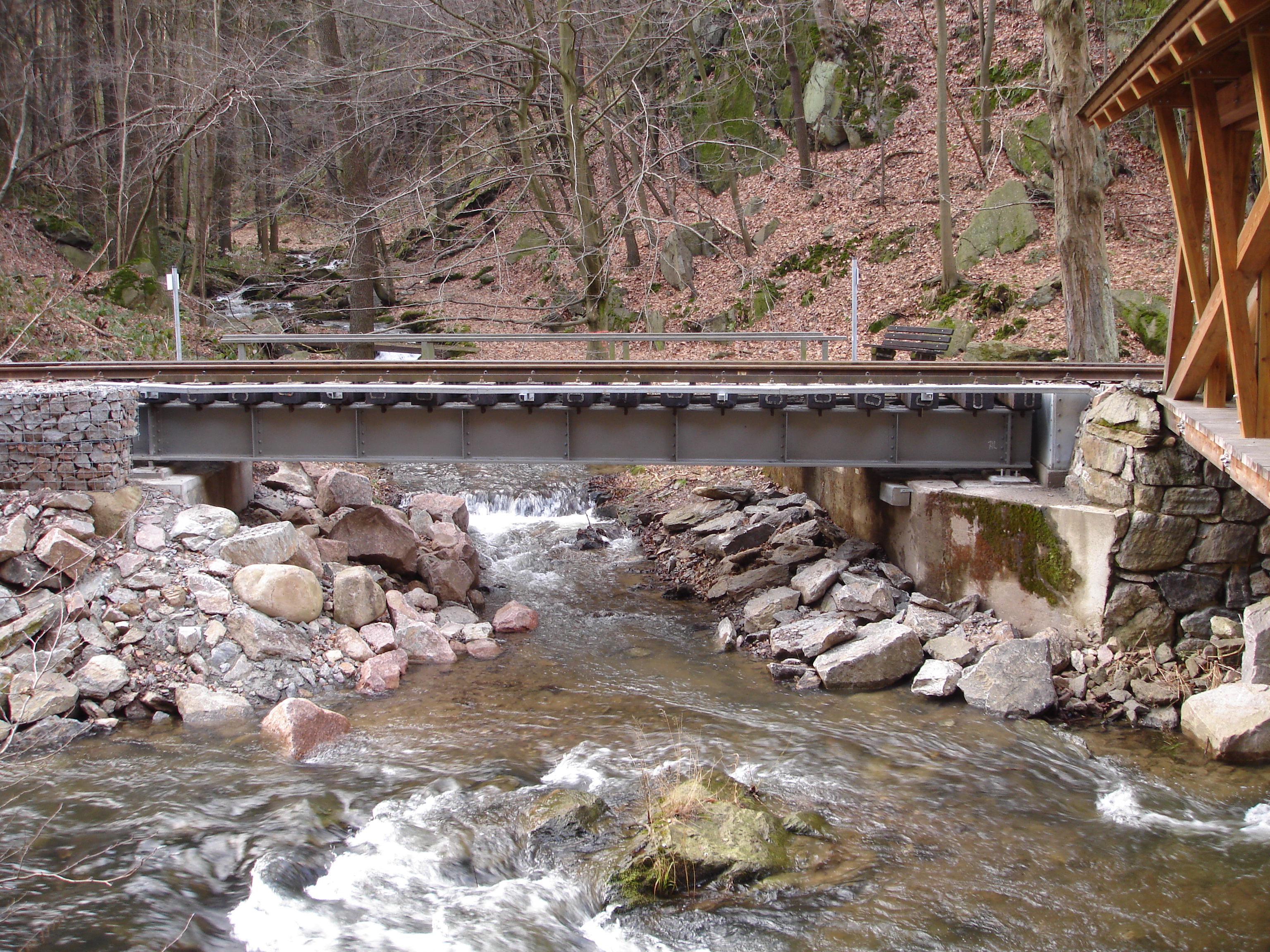 bridge over Borlasbach, Weißeritztalbahn, Saxony, Germany